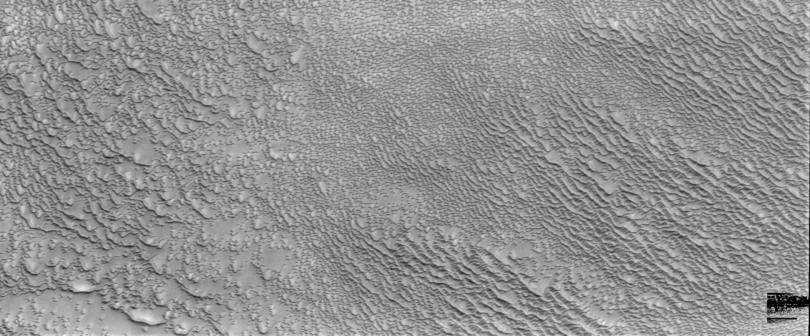 Siton_Undae Today's VIS image shows part of Siton Undae, a dune field located near Escorial Crater and the north polar cap.